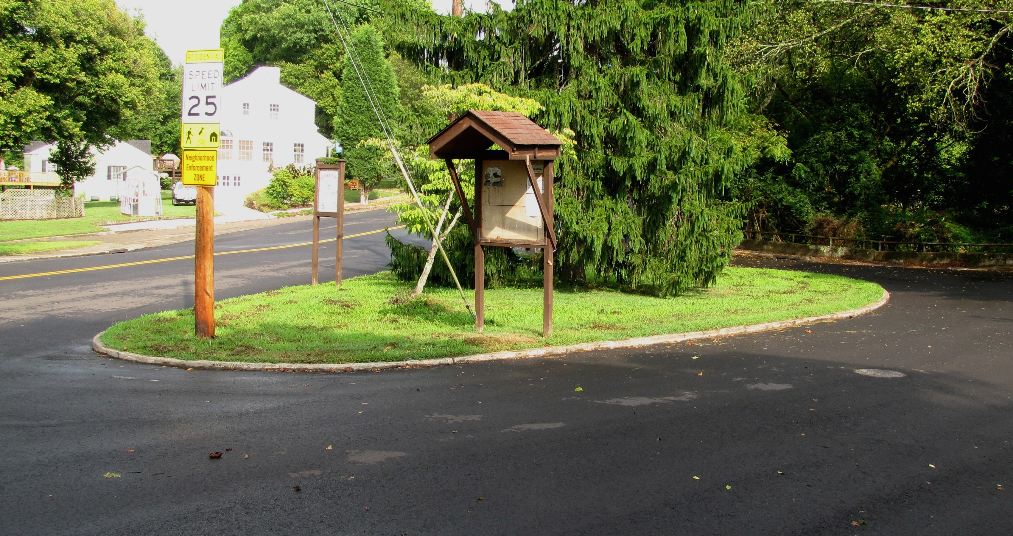 Former trolley turnaround just inside the gateposts of the Island Home Park neighborhood of Knoxville, Tennessee, USA. This turnaround is listed as a contributing site within the NRHP-listed Island Home Park Historic District.